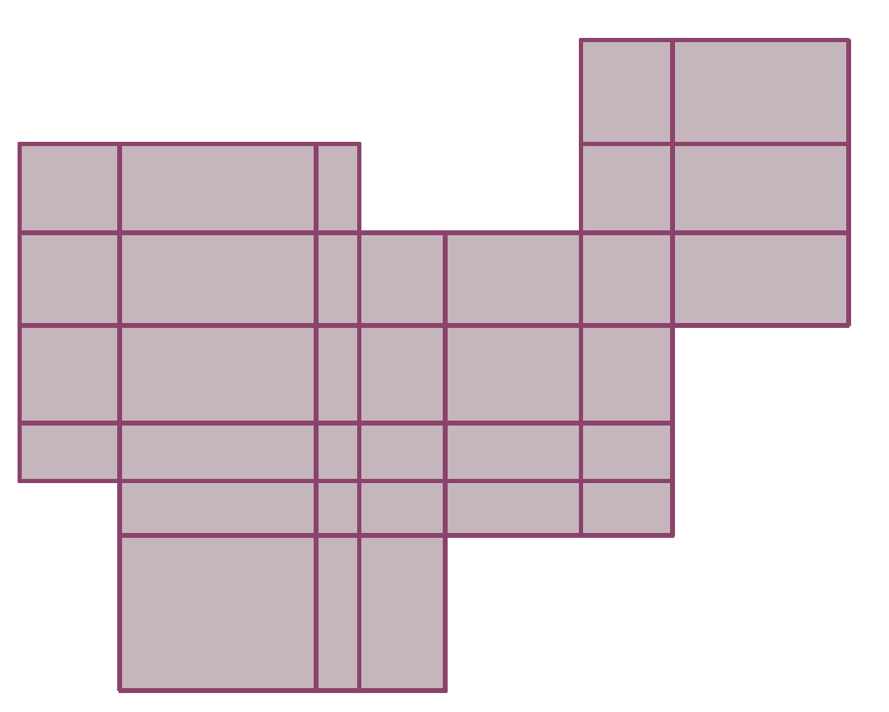 Made by myself with matlab.